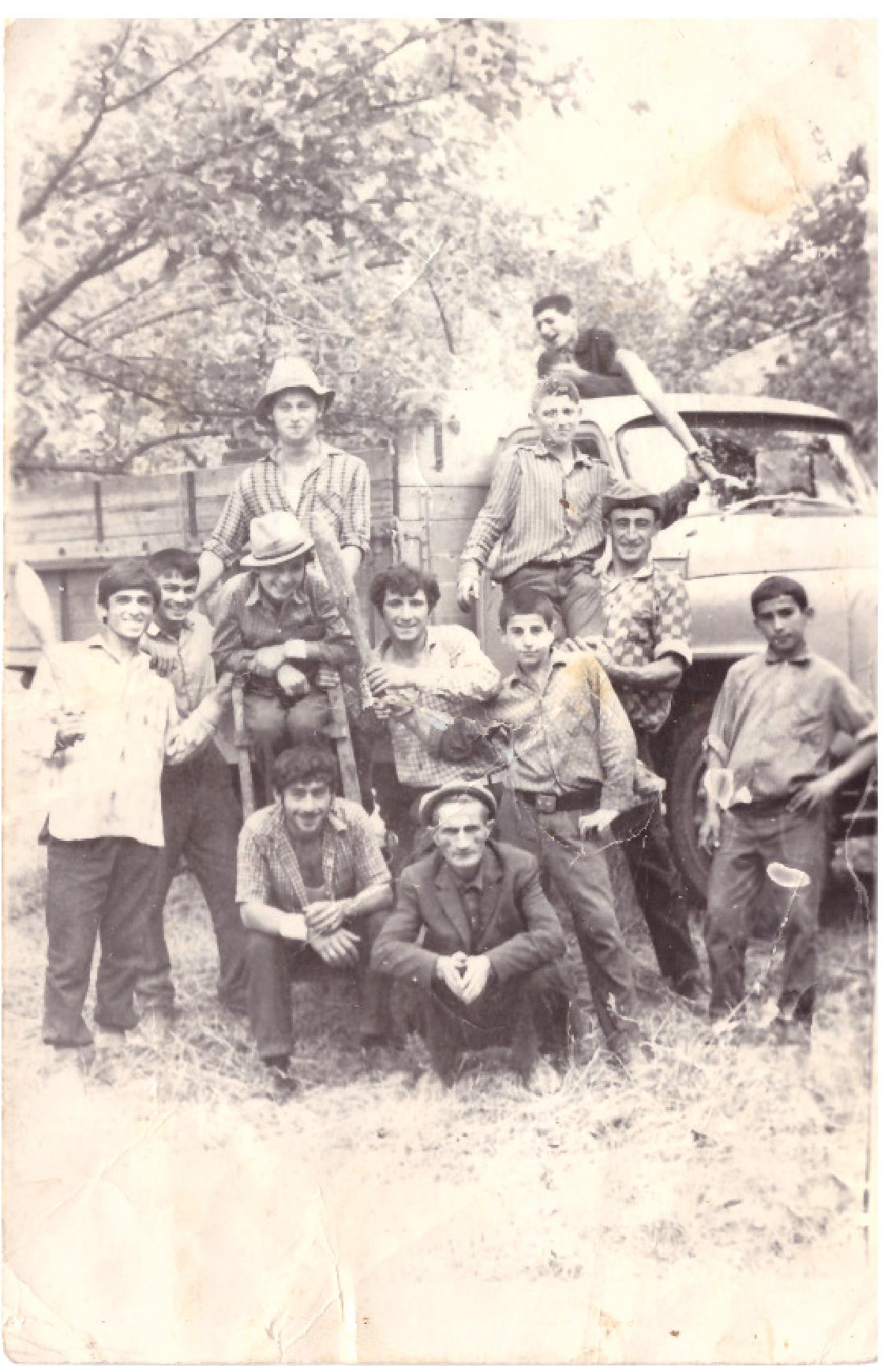 Տղամարդիկ հանգստի ժամանակ